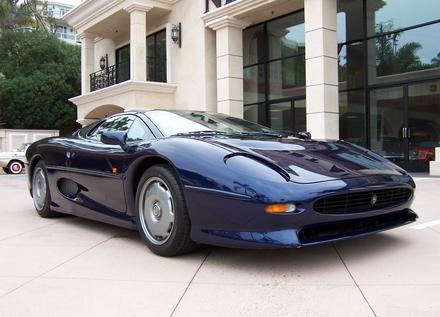 Jaguar XJ220 Photographed in Newport, RI.